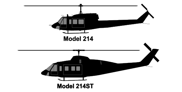 Side-view comparison of the Bell 214 and Bell 214ST From: Self-identified as PD